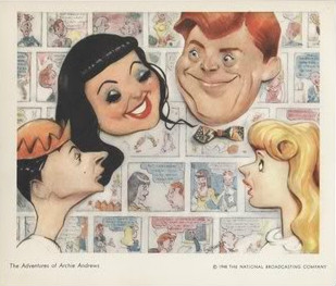 Promotional caricatures of Archie Andrews and cast for The Adventures of Archie Andrews, as part of the NBC Parade of Stars promotion. Copyright details This drawing is part of the 1947 NBC Parade of Stars network promotion. There were 56 drawings in the entire package, one representing each of the NBC Radio Network shows on the air at the time. The collection was made available in a portfolio. The artwork was used by NBC for promotion of both its radio network and the personalities who were part of the radio shows on it in 1947. The drawings were made available to the media and were used in print ads, as "car cards" (ads in buses and transit cars) and billboards, as well as point of purchase displays where sales of physical products were involved. They were also prominently displayed in the RCA Building and NBC Radio. Come See Your Fave NBC Star In Caricature Billboard 13 September 1947 NBC To Use Disk Series For Annual Promotion Billboard 19 April 1947 When NBC filed for copyright on these drawings, they did not copyright all of them as a folio but as individual works of art. Some of them were renewed in 1975, while others were not, leaving some of the folio as still under copyright and other caricatures from this portfolio as not renewed (now free use). Further complicating this is that there appears to be more than one work of art for some personalities. It is not known whether the second work was ever seen by the public. NBC appears to have filed for copyright and apparently asked Sam Berman to execute another caricature, which was also then copyrighted. List of Parade of Stars copyright renewals by title: pages 9-10 This is not on the list of those renewed.